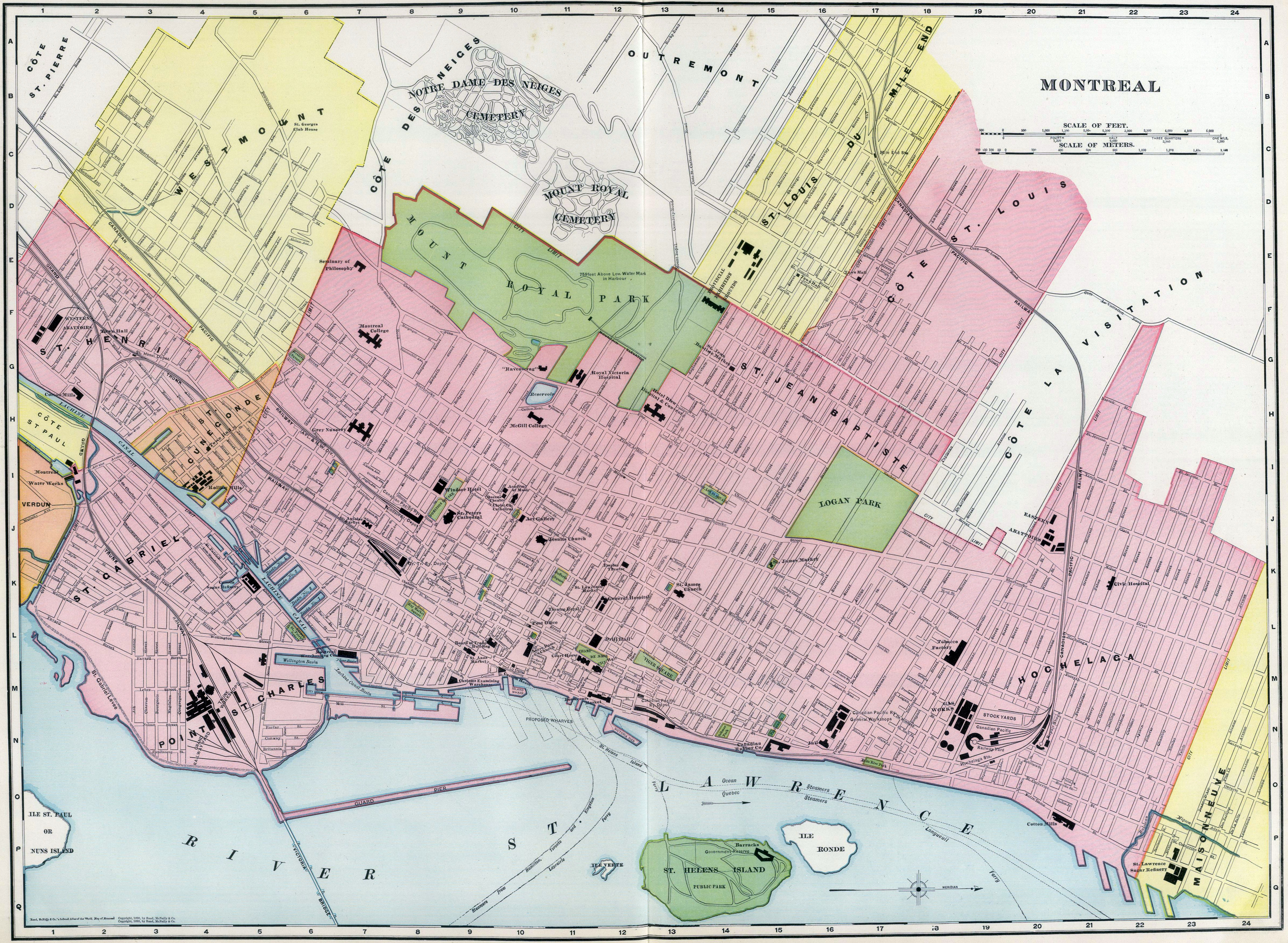 Map of Montreal, 1898